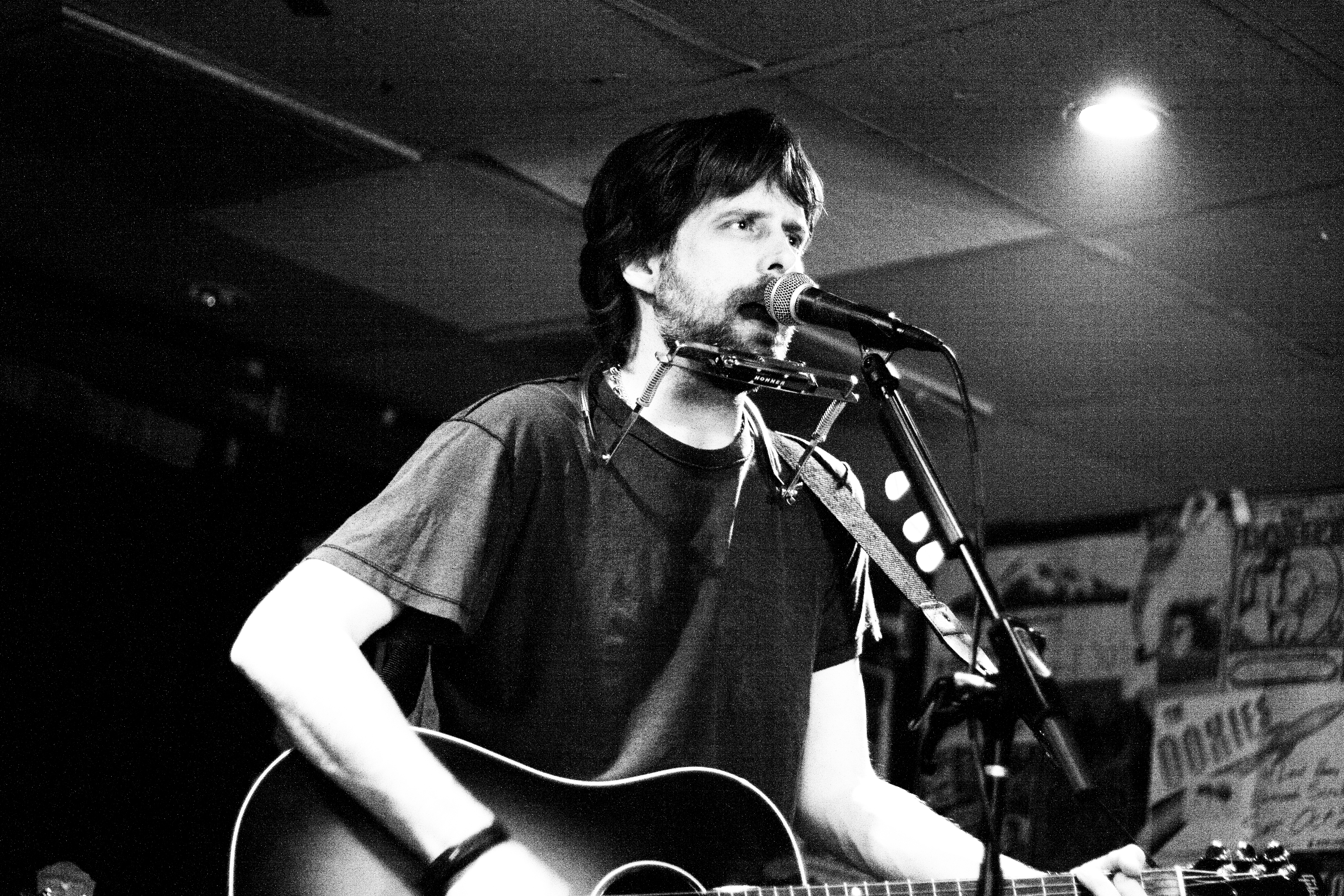 Detroit-area musician Jeremy Porter performing solo-acoustic in Saint Louis, Missouri, June 2011. Photo: N. Porter